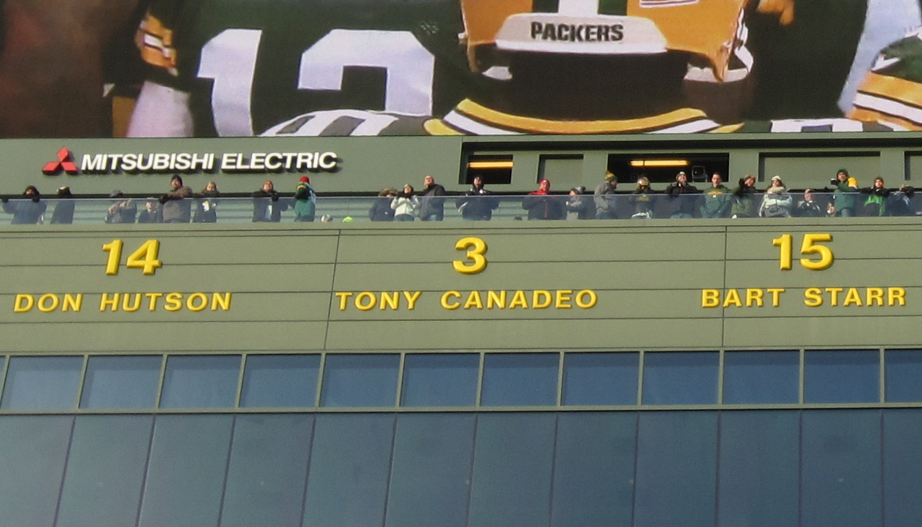 A cropped version of the Green Bay Packers retired numbers above the stands at Lambeau Field focusing on Tony Canadeo.